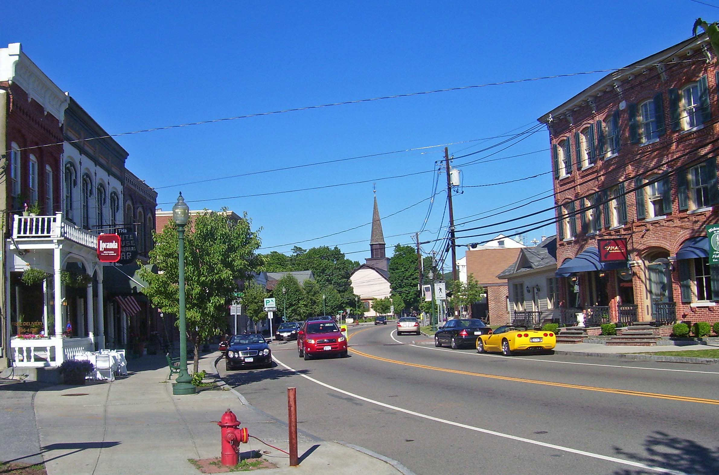 Main Street (NY 52) in the village of Fishkill, NY, USA, part of the federal historic district.